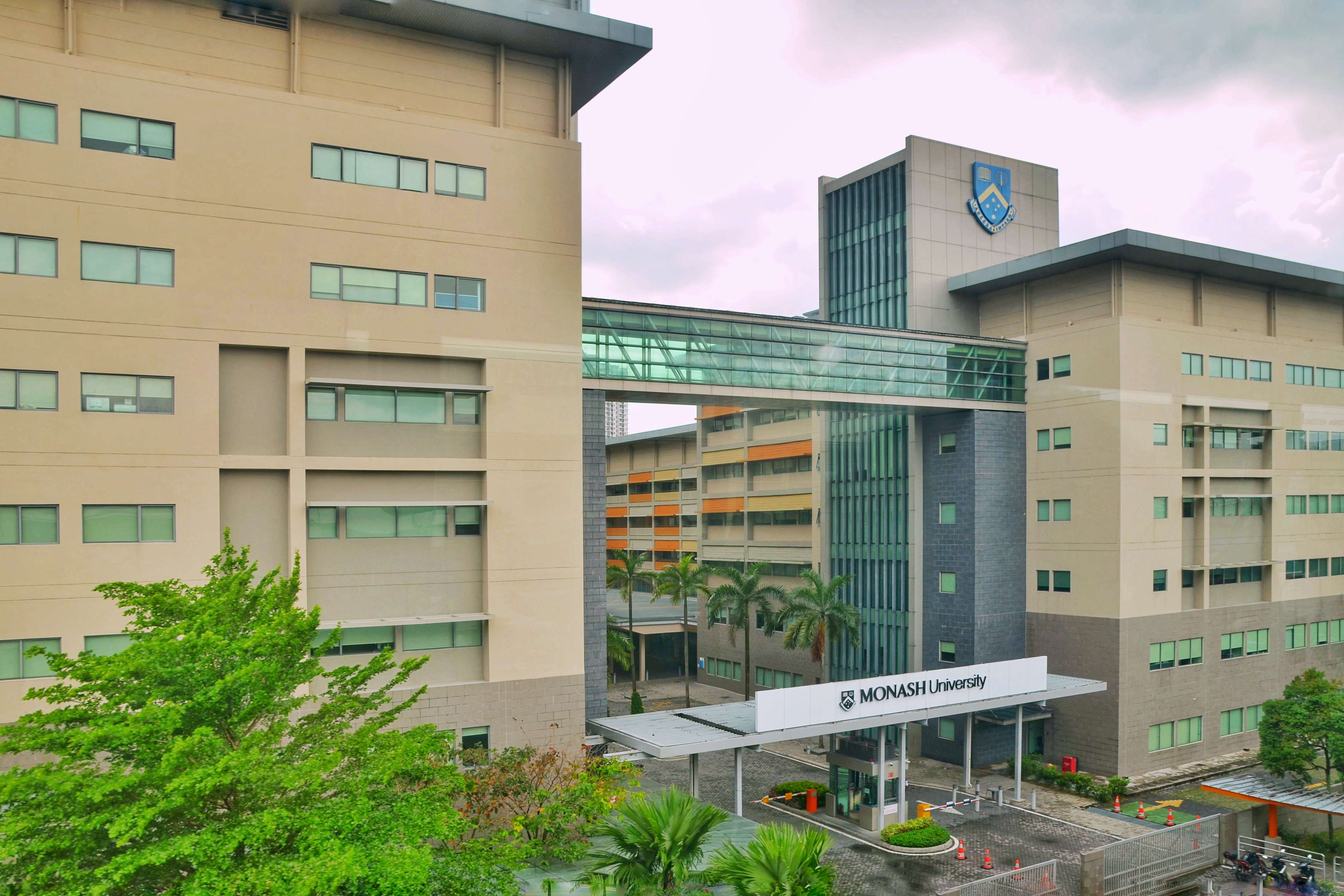 Monash University Malaysia Campus viewed from the BRT Sunway Line.